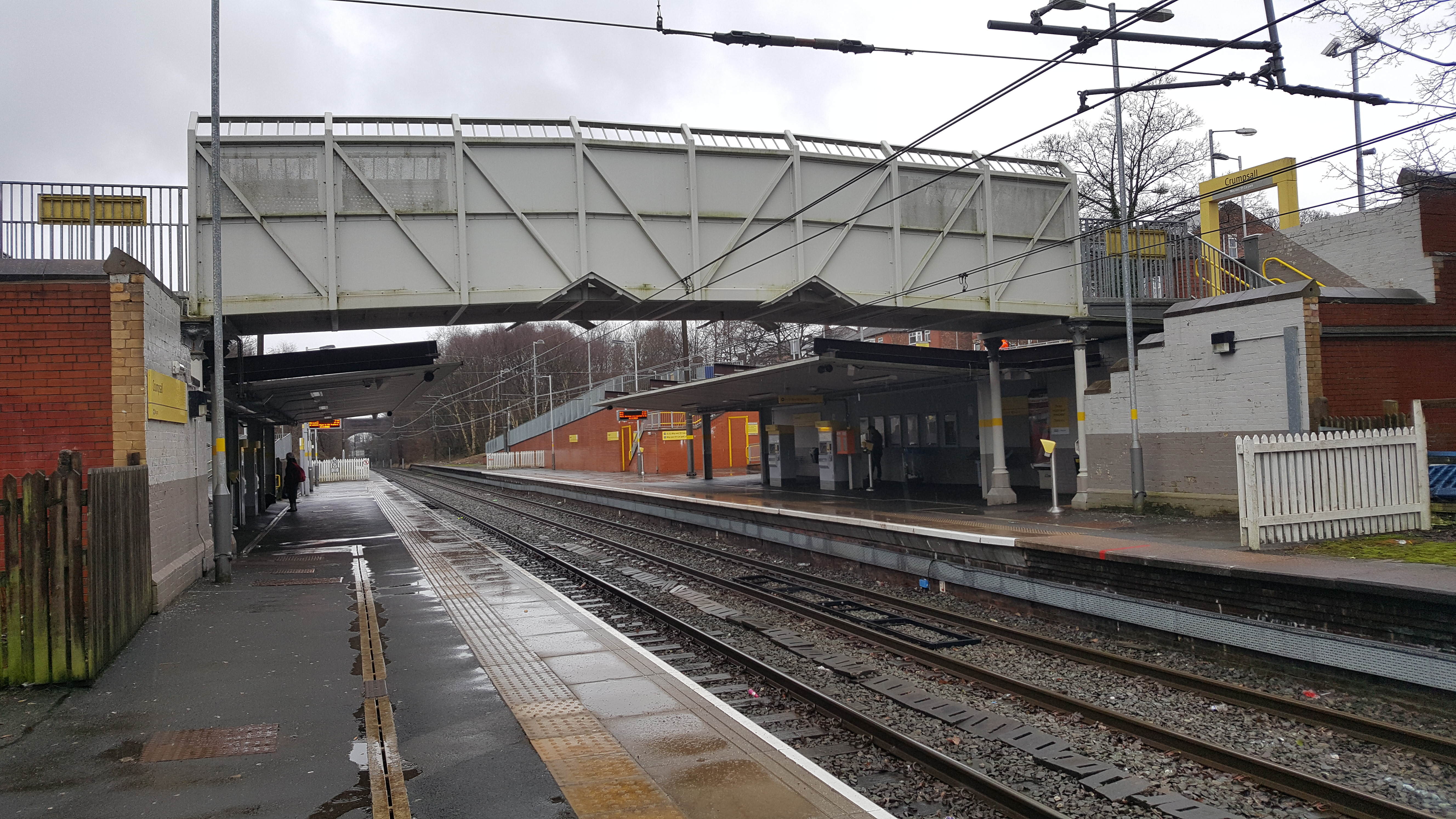 Crumpsall tram stop looking South.